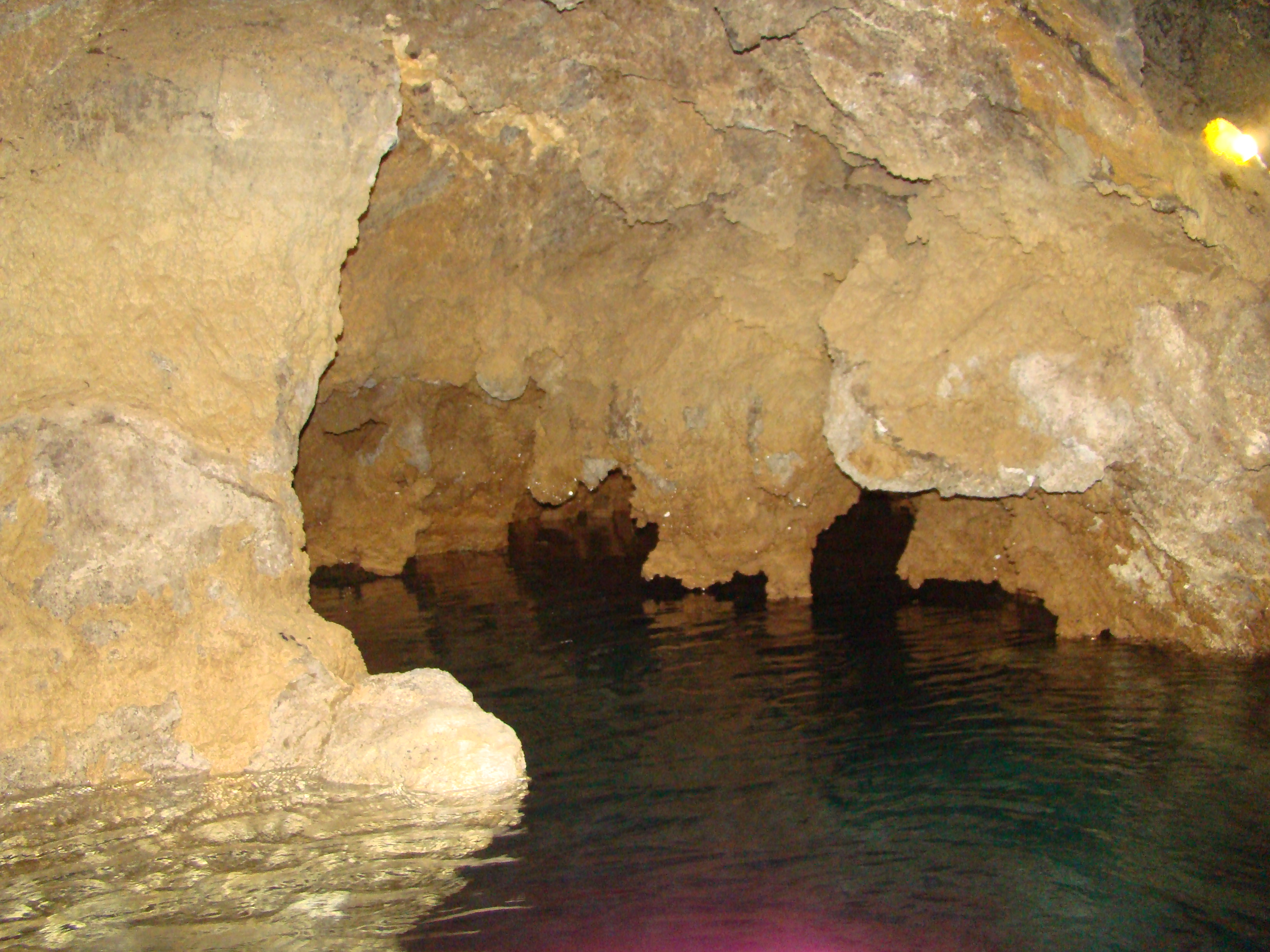 Ali-Sadr Cave, Hamedan Province, Iran